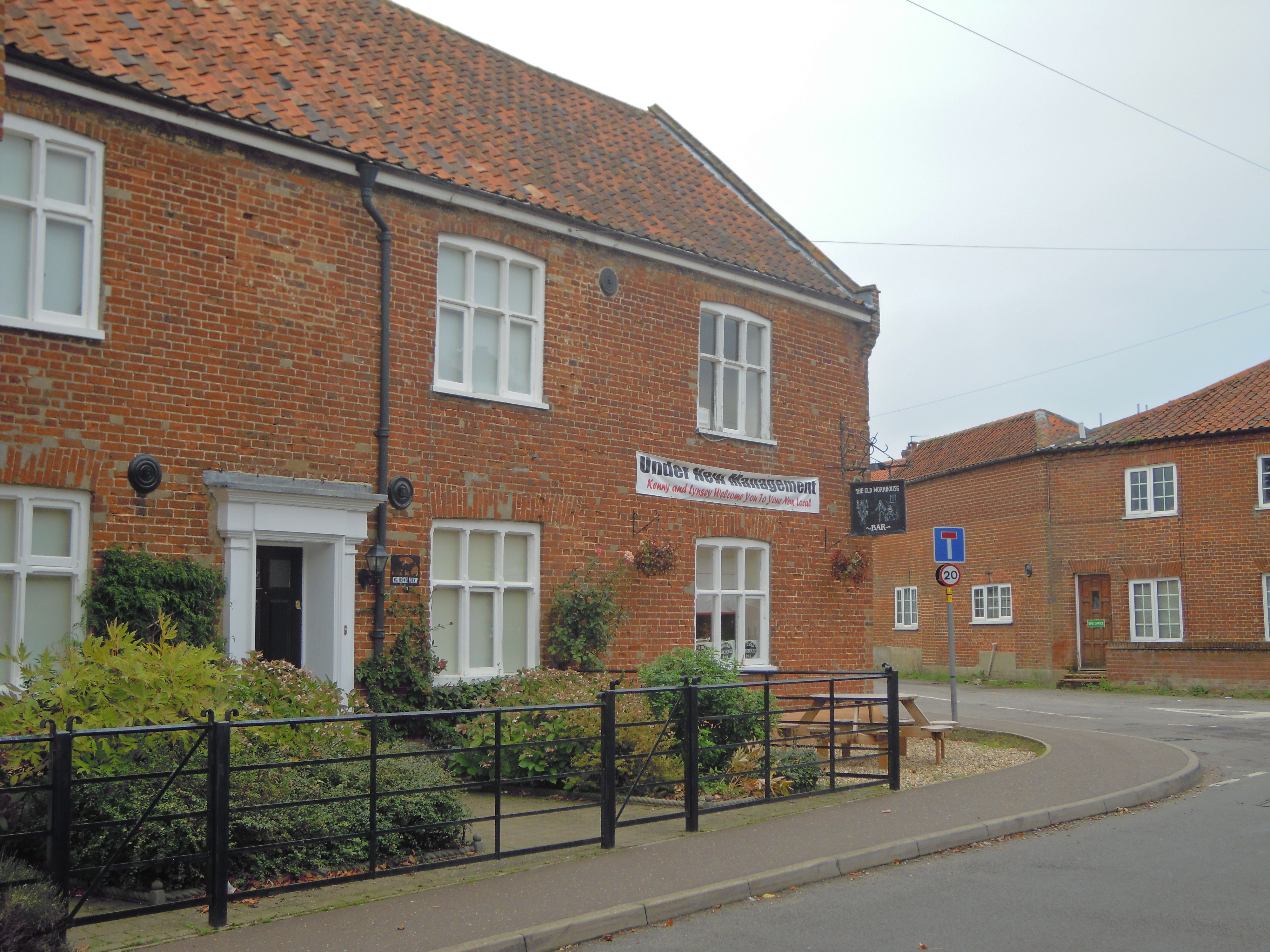 Old Workhouse Bar, The Street, Bawdeswell, NR204RT Norfolk.